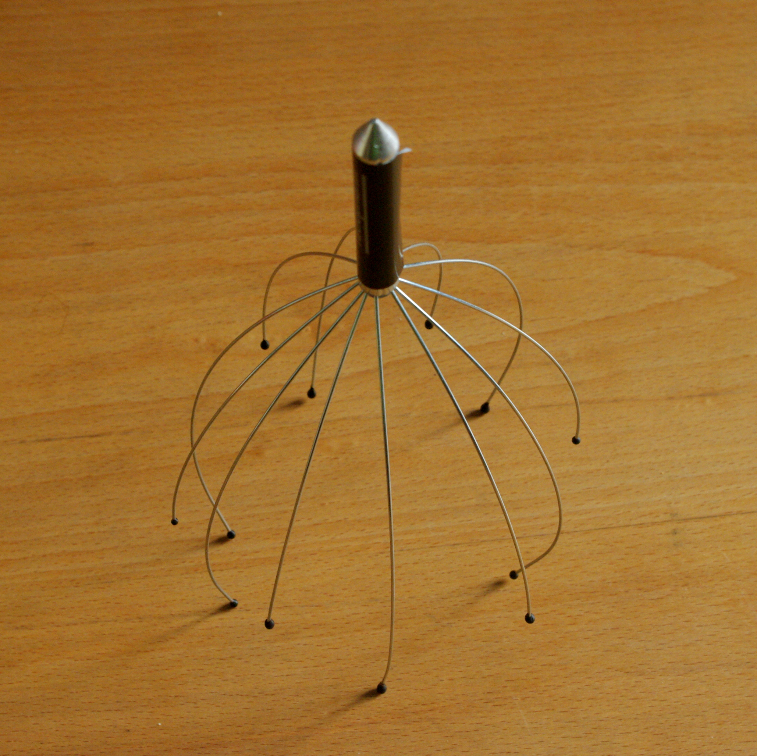 Head massager on wooden table, view from above